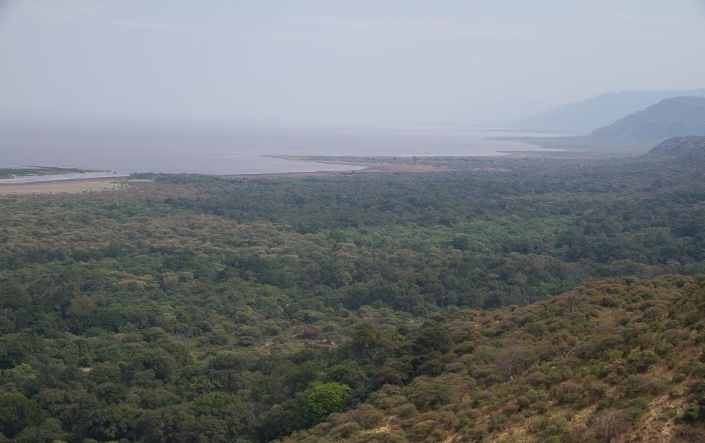 overlooking Lake Manyara NP from viewpoint